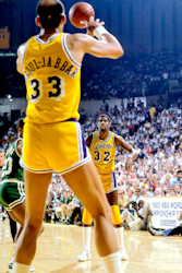 Los Angeles Lakers' Magic Johnson with Kareem Abdul-Jabbar in action during the 1985 NBA Finals against the Boston Celtics at the Great Western Forum.